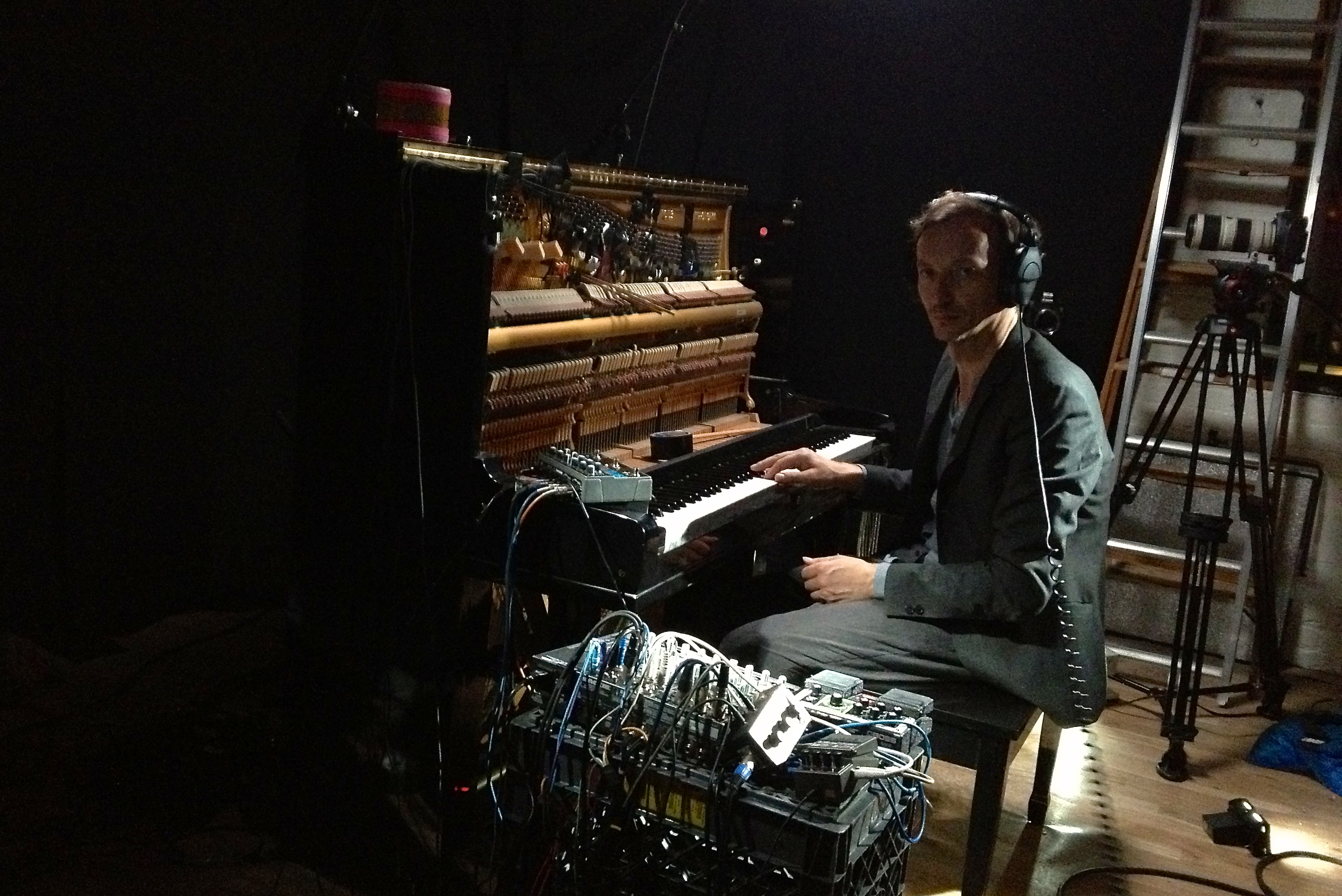 While on a recent US tour with Grammy-winning American violinist Hilary Hahn, celebrated Düsseldorf-born piano composer Hauschka took a time-out to create this very special 3-part performance series with esteemed director Greg Hunt, set designer Tamarra Younis, and sound engineer J. Clark. Employing elements of magical realism, prepared piano, playful improvisation and inspired collaboration, this episode embodies everything we've come to love about Room 205. BIO Hauschka is the musical alias of acclaimed modernist German composer Volker Bertelmann. Over seven albums he's explored the creative possibilities of the "prepared" piano by modifying its innards with an assortment of odds and ends (such as gaffer tape, aluminum foil, bells and ping pong balls), transforming the pure tuned instrument into mini rhythm sections. With his most recent solo release – 2011’s Salon Des Amateurs – he's crafted an astonishingly creative piano-and-percussion homage to electronic dance music. The results are vivid, unconventional pieces made in a spirit of inspired research-enthusiasm. COMPONENTS Video YouTube: Vimeo: Photos Flickr: Music SoundCloud: CREDITS Executive Producer Incase: Producer Arlie Carstens: Director Greg Hunt: Set Designer Tamarra Younis: Audio Engineer J. Clark: Camera Josh Zucker: Director of Photography Conor Simpson: Editor Greg Hunt: Photos Arlie Carstens: Performing Artist Hauschka: hauschka-net.de Label FatCat Records: Publicity Shaker Maker PR: Room 205 Theme Song Cora Foxx